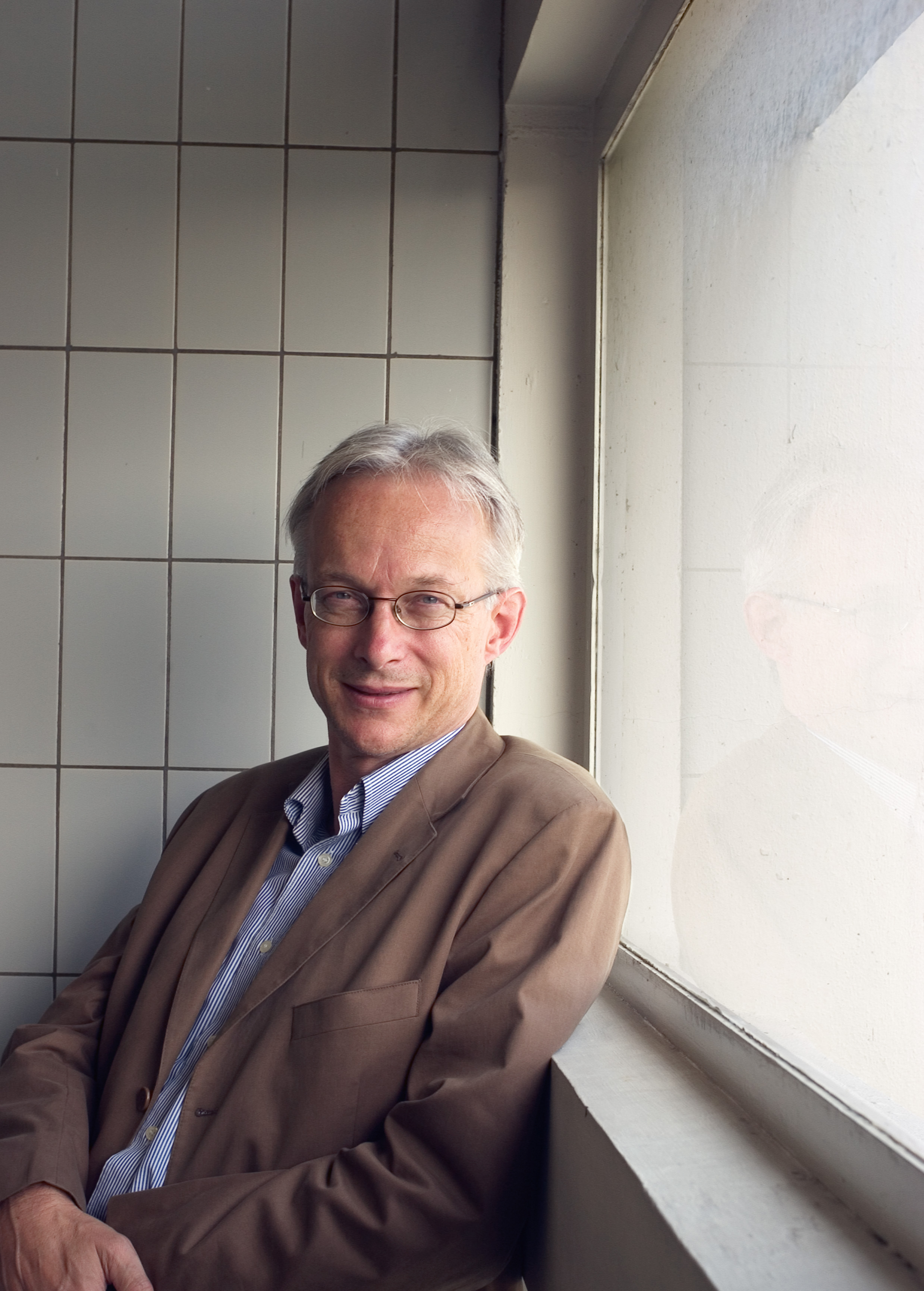 Johan van Benthem, Spinoza laureate 1996. Photo by Ivar Pel (NWO)